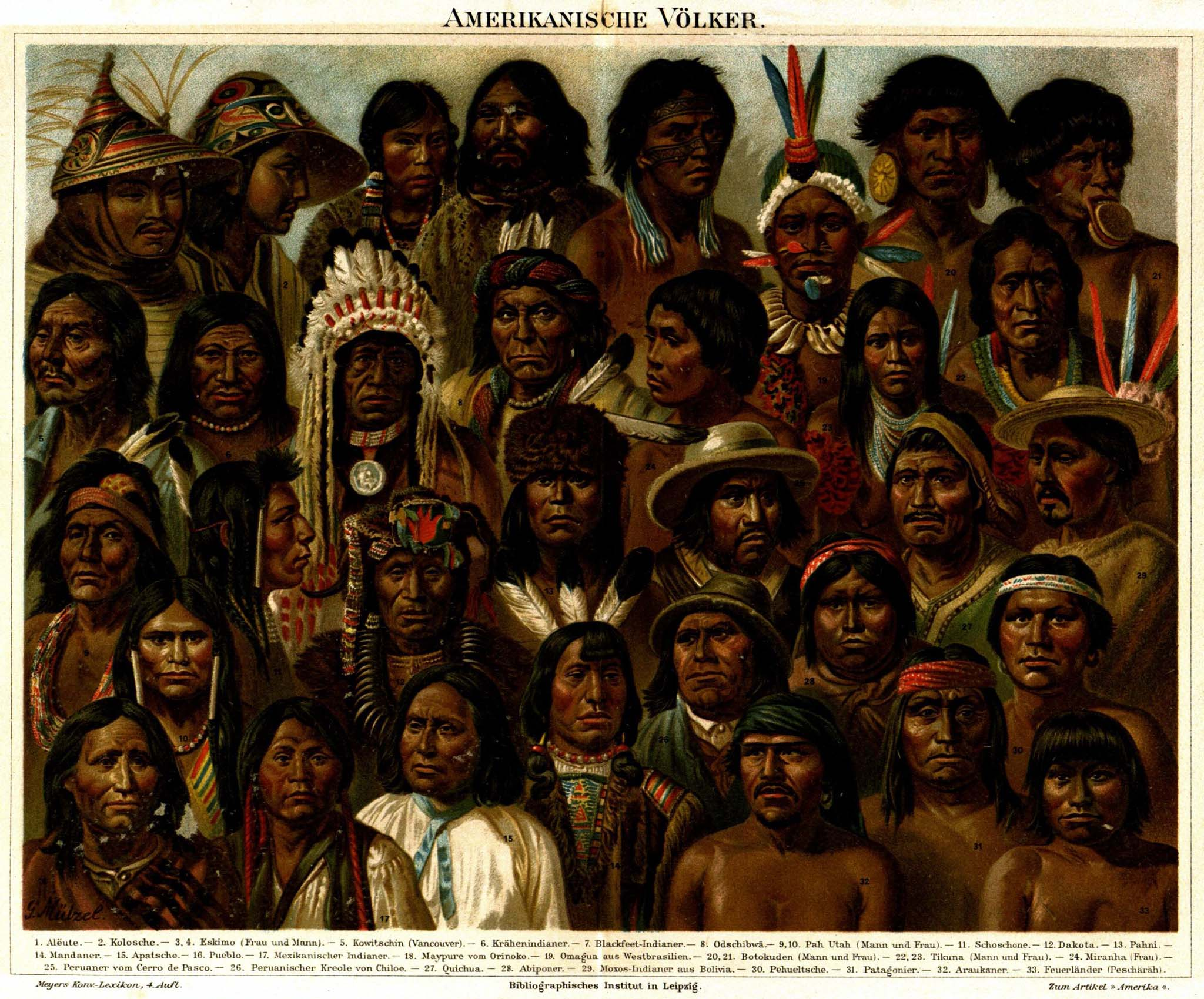 Meyers Konversationslexikon — Vol. 1 — plate to page 457 — American indigenous peoples